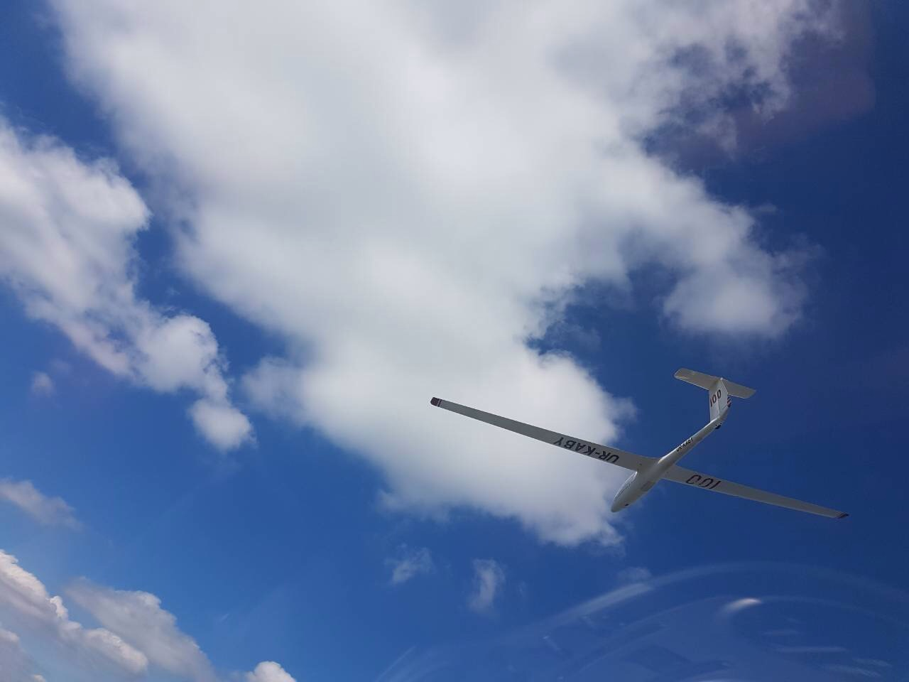 Glider Jantar Standard hovers over UKBW awrodrome